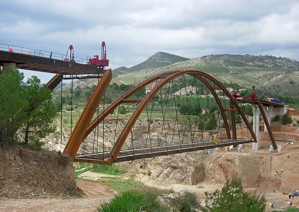 La Vicaria Arch Bridge